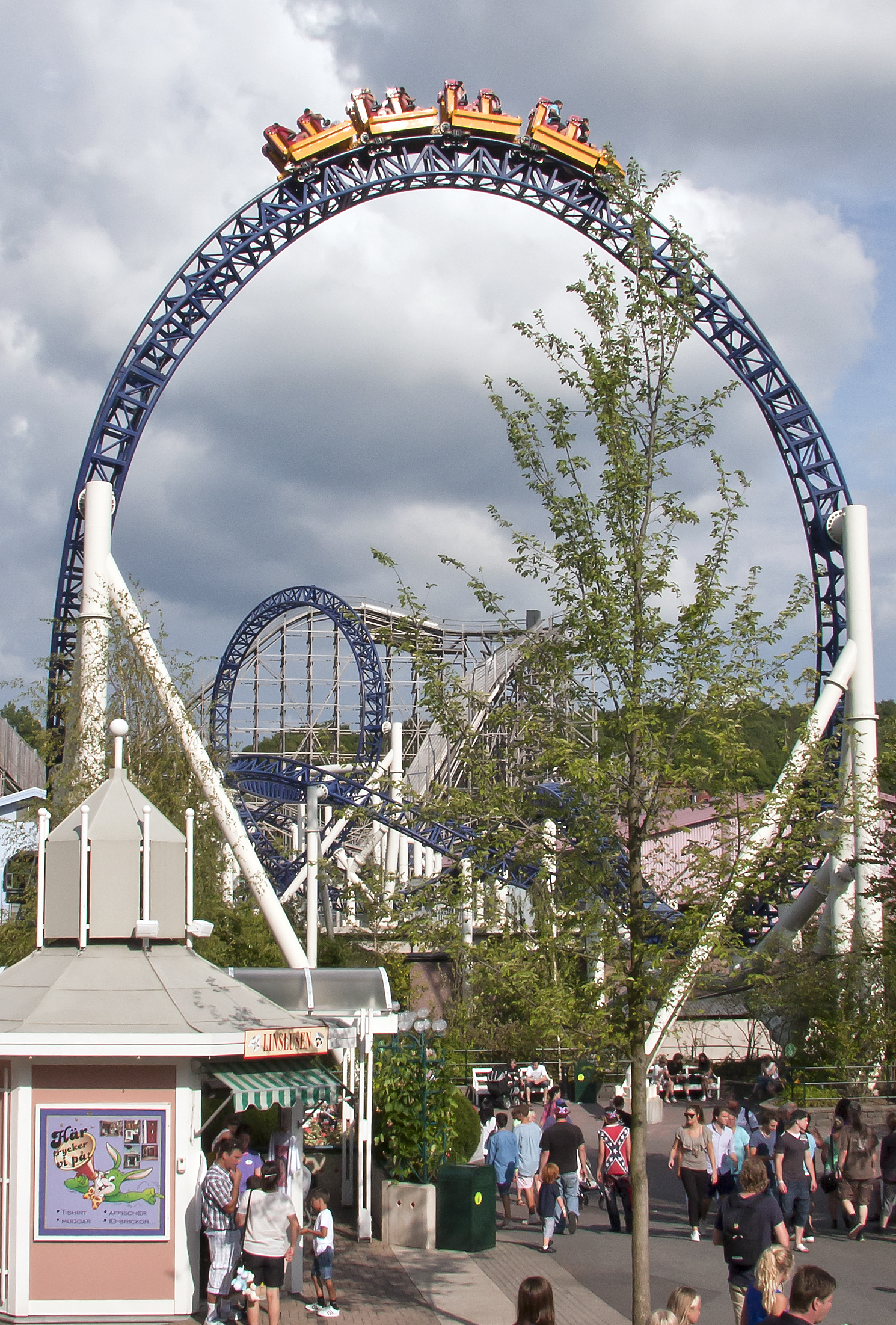 Roller coaster Kanonen (The Cannon) at Liseberg amusement park in Gothenburg, Sweden.